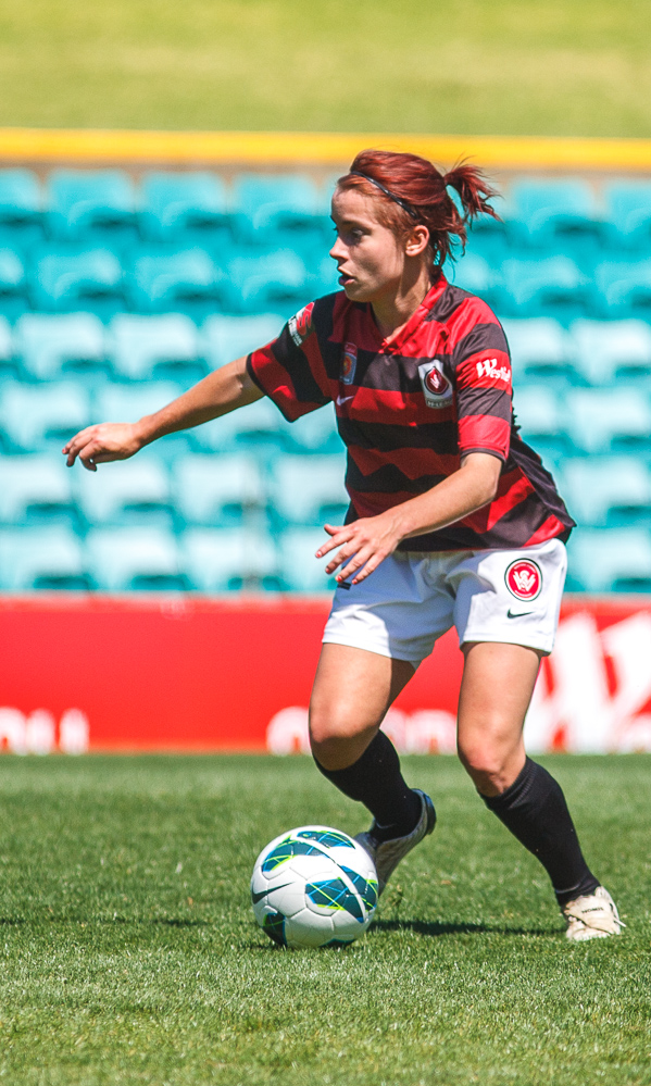 Samantha Spackman playing for the Western Sydney Wanderers